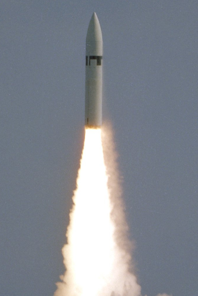 National Archive# NN33300514 2005-06-30 Released to Public ID: DF-SC-84-07332 Service Depicted: Navy A Polaris A3 fleet ballistic missile lifts off at 12:33 p.m. EST during a launch from the nuclear-powered strategic missile submarine USS ROBERT E. LEE (SSBN-601). The launch is taking place on the Eastern Test Range.